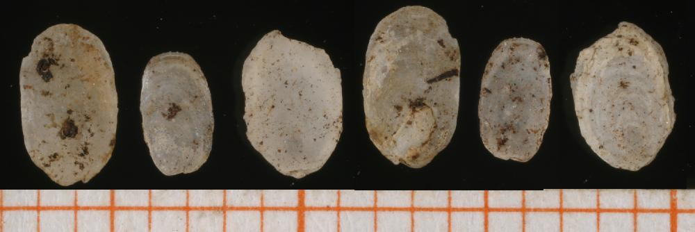 Slug shells of Tandonia rustica (Millet, 1843). Collected (04-1974) by S. G. A. Jaeckel, sample deposited in collection Haus der Natur Cismar (V. Wiese). Image taken 08-2007 in Cismar, scale in mm. Note: the given coordinates are merely an approximation of the described locality.